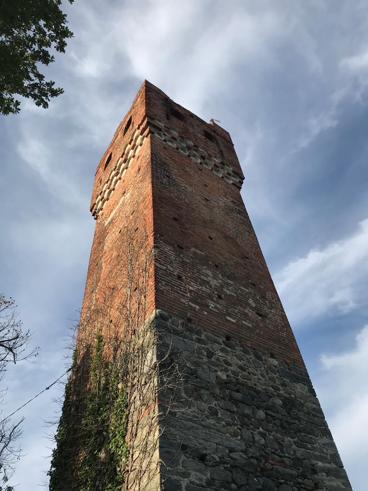 ancient tower in Candia Canavese